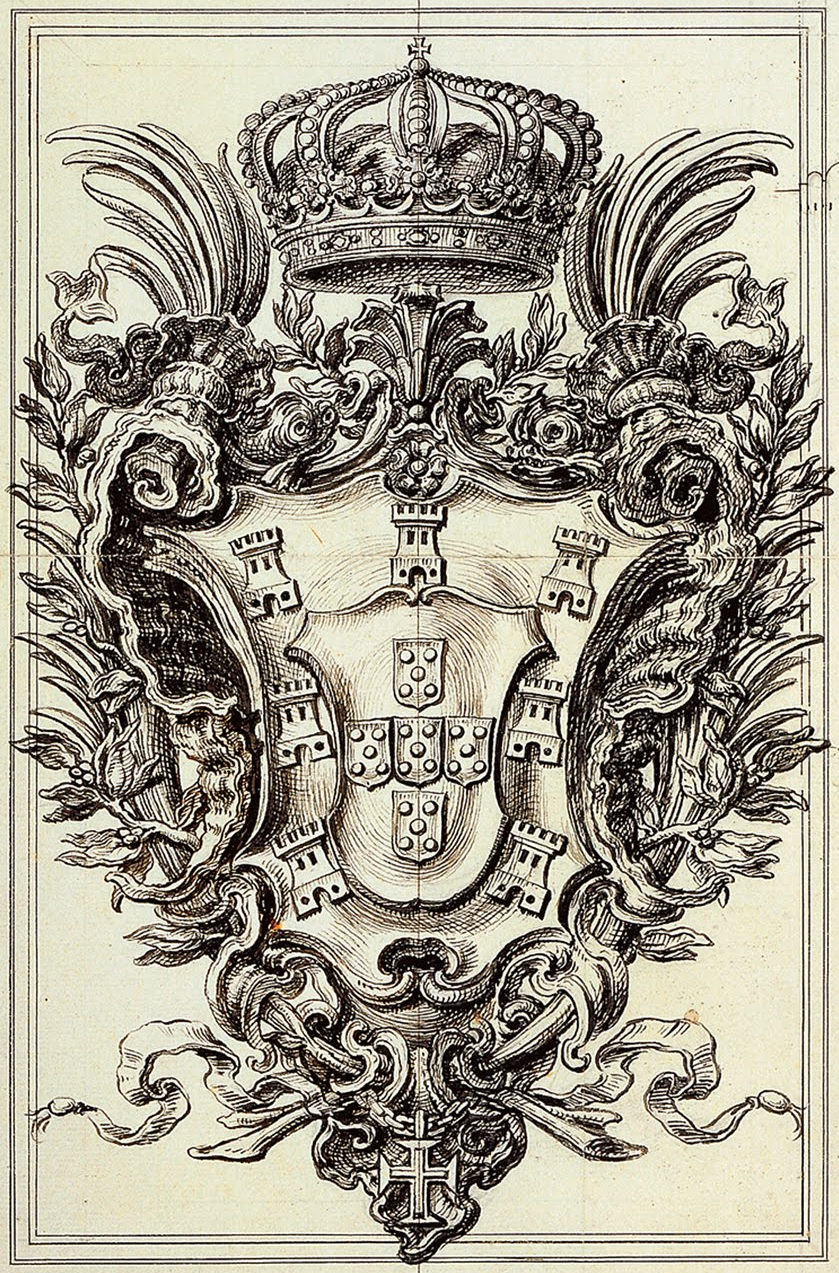 Project for the Royal Arms of Portugal in the Chapel of Saint John the Baptist, in the Church of Saint Roch, in Lisbon, Portugal. By João Frederico Ludovice, in 1744.